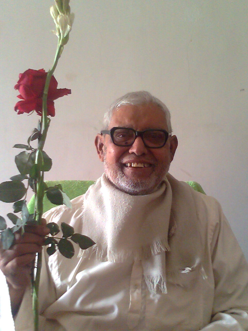 Fazlul haque khondker is celebrating his 86th birthday.